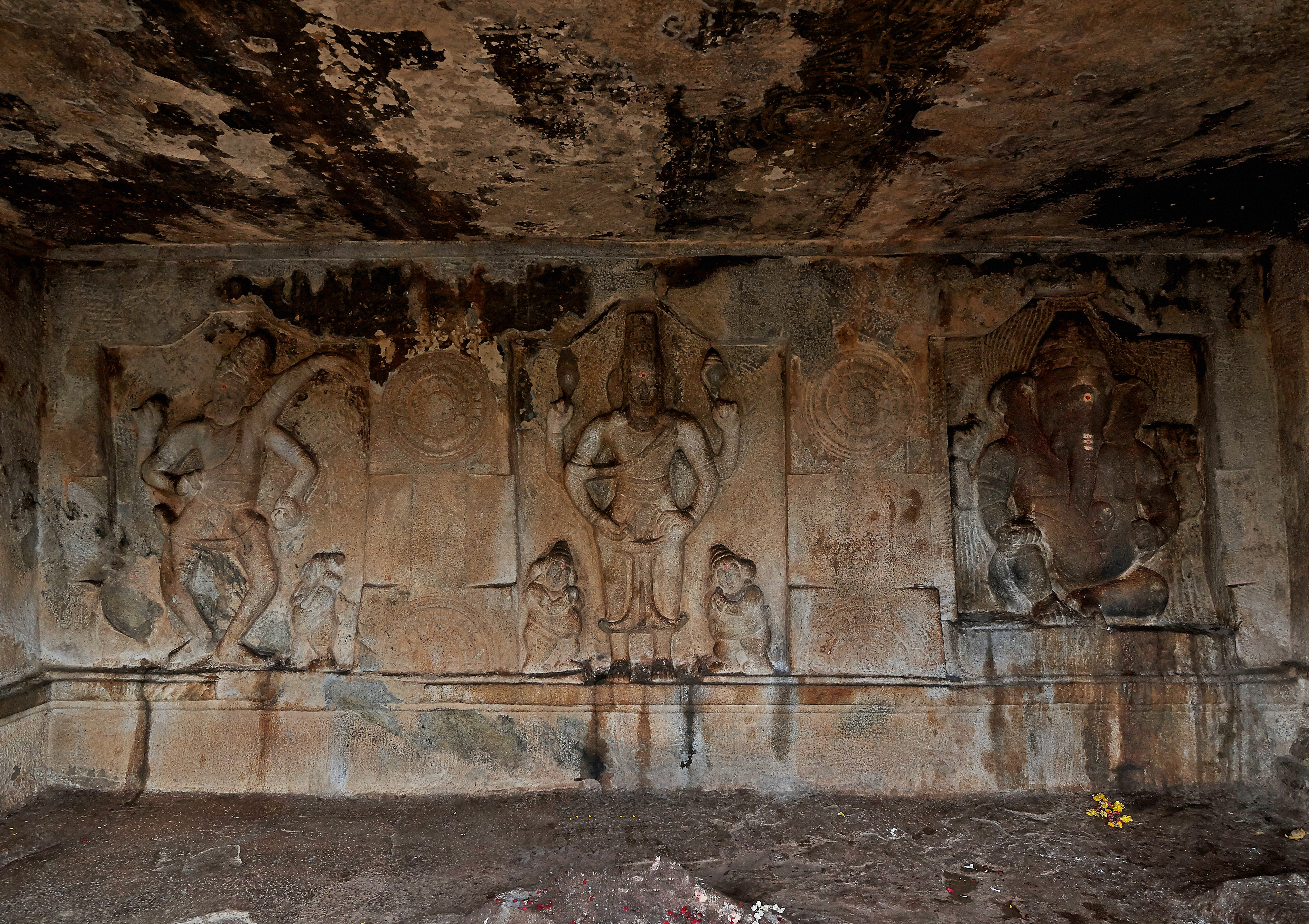 Inside View of First cave at Thirumalapuram in the varunachimalai hill in Tirunelveli District